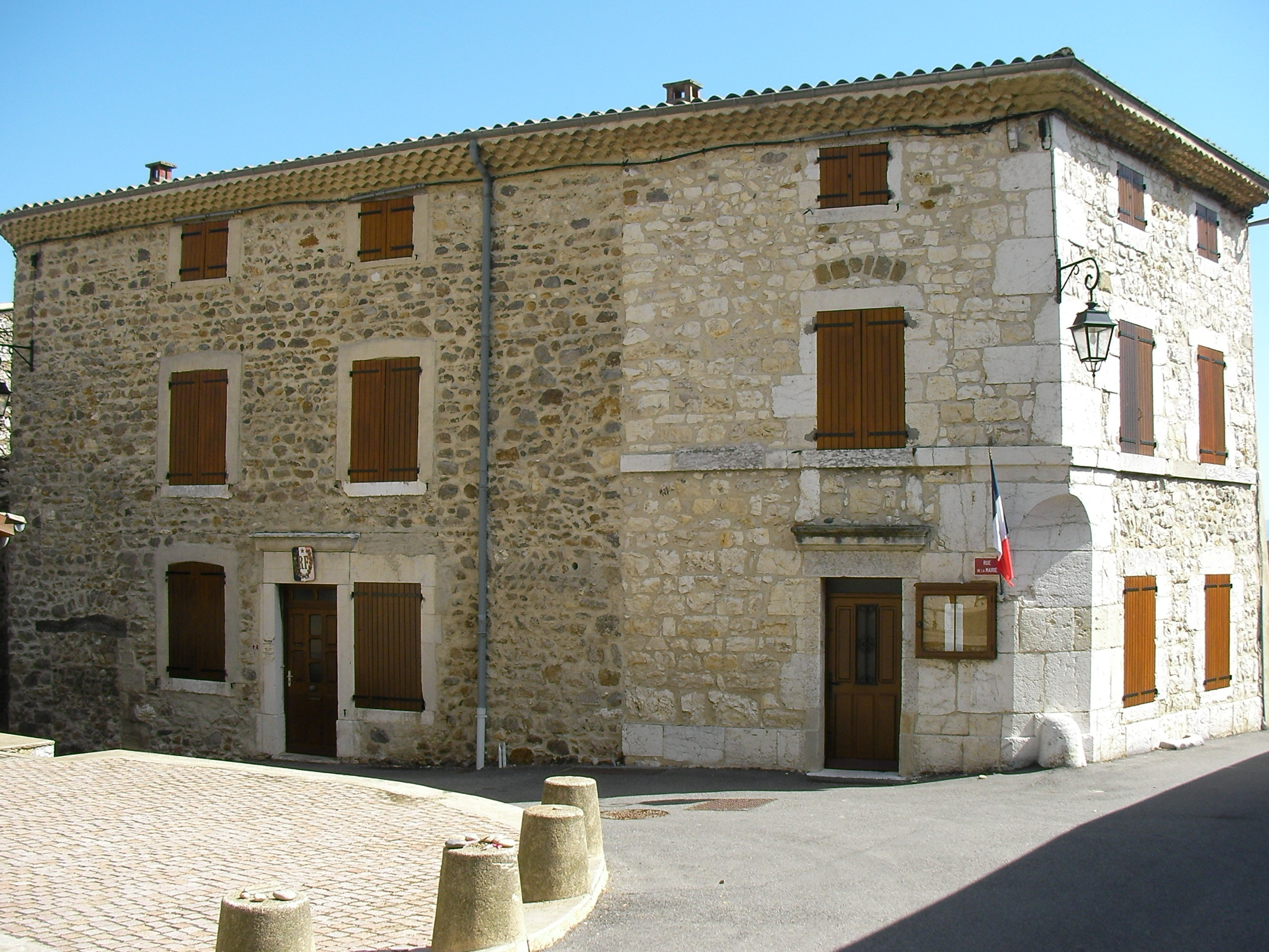 Town hall of Châteaubourg (Ardèche/France)